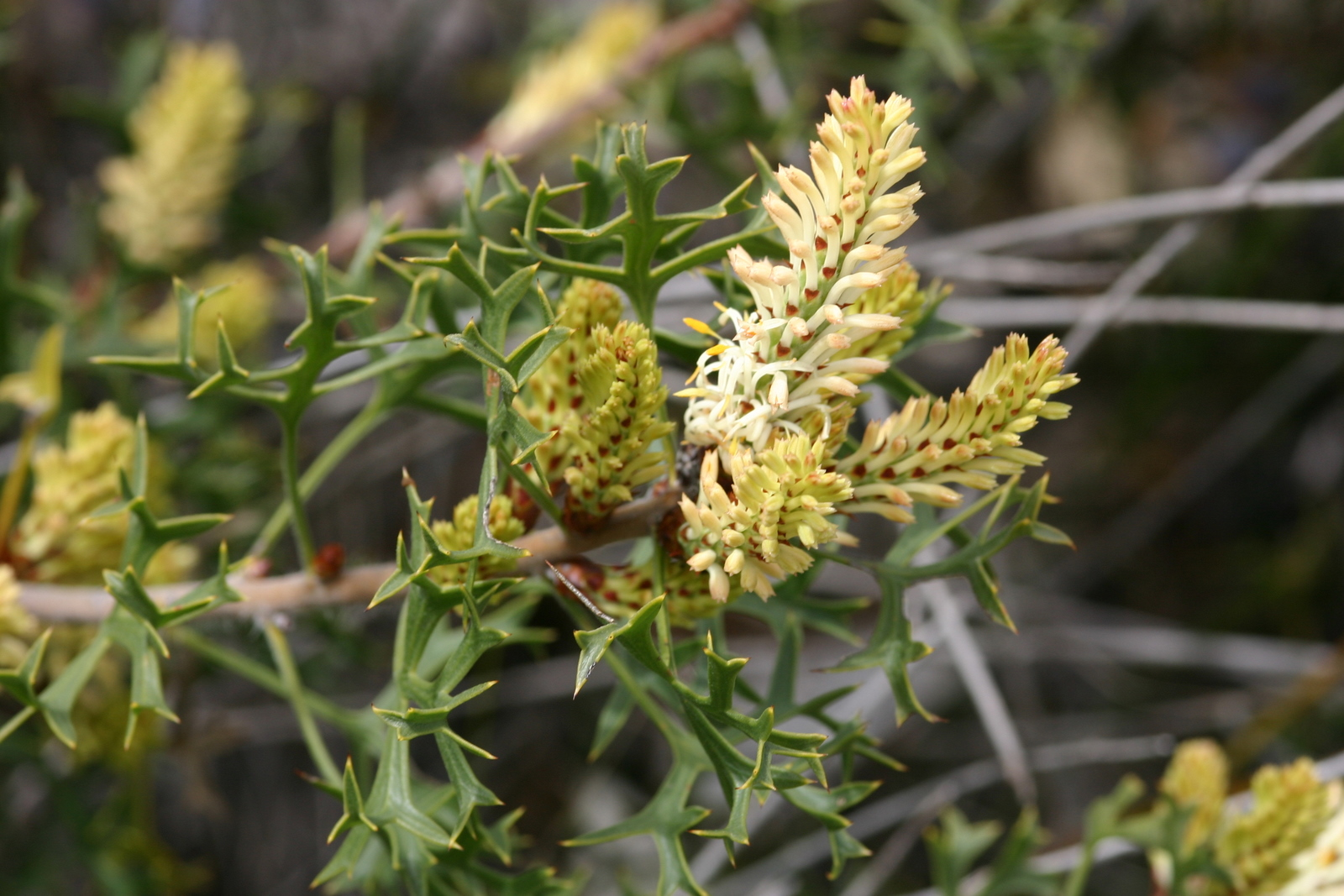 Petrophile macrostachya at Cottonwood Cr Reserve, Perth